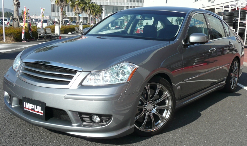 IMPUL 650SE.